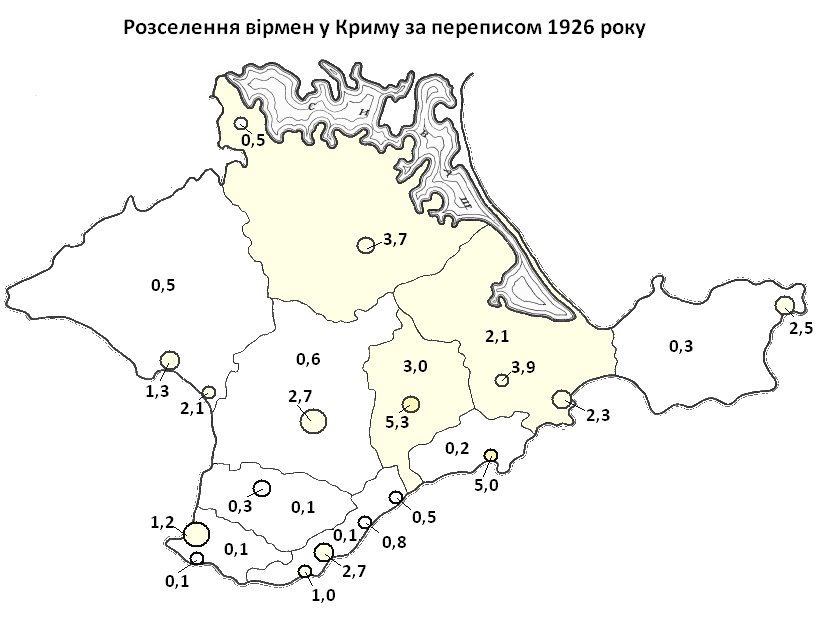 Percentage of armenians in Crimea according to 1926 census